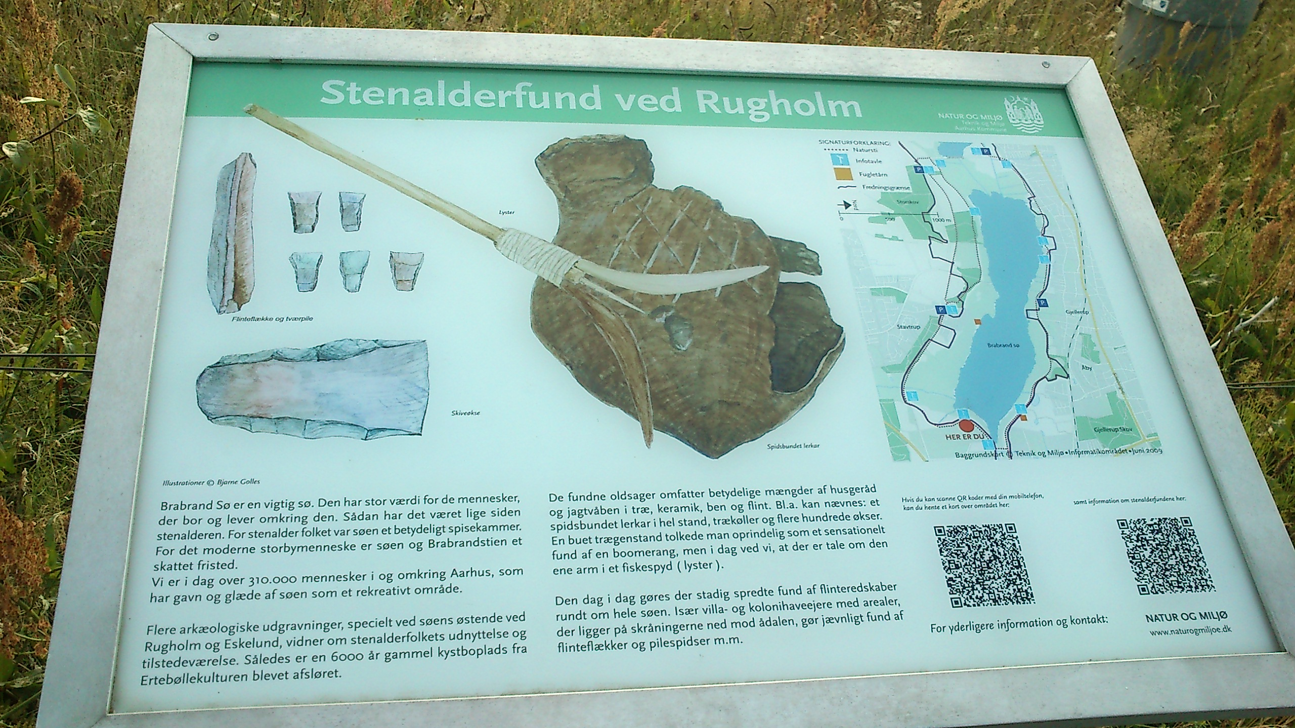 Information board at Brabrand Lake on the Stone Age finds at Rugholm.